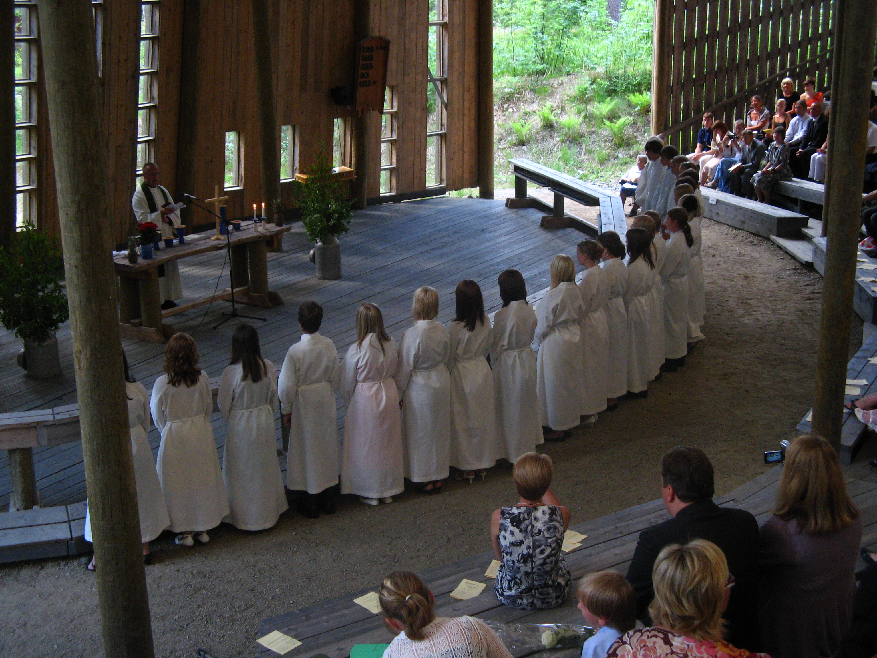 Confirmation in Aholansaari outdoor church in Nilsiä, Finland, in 2009